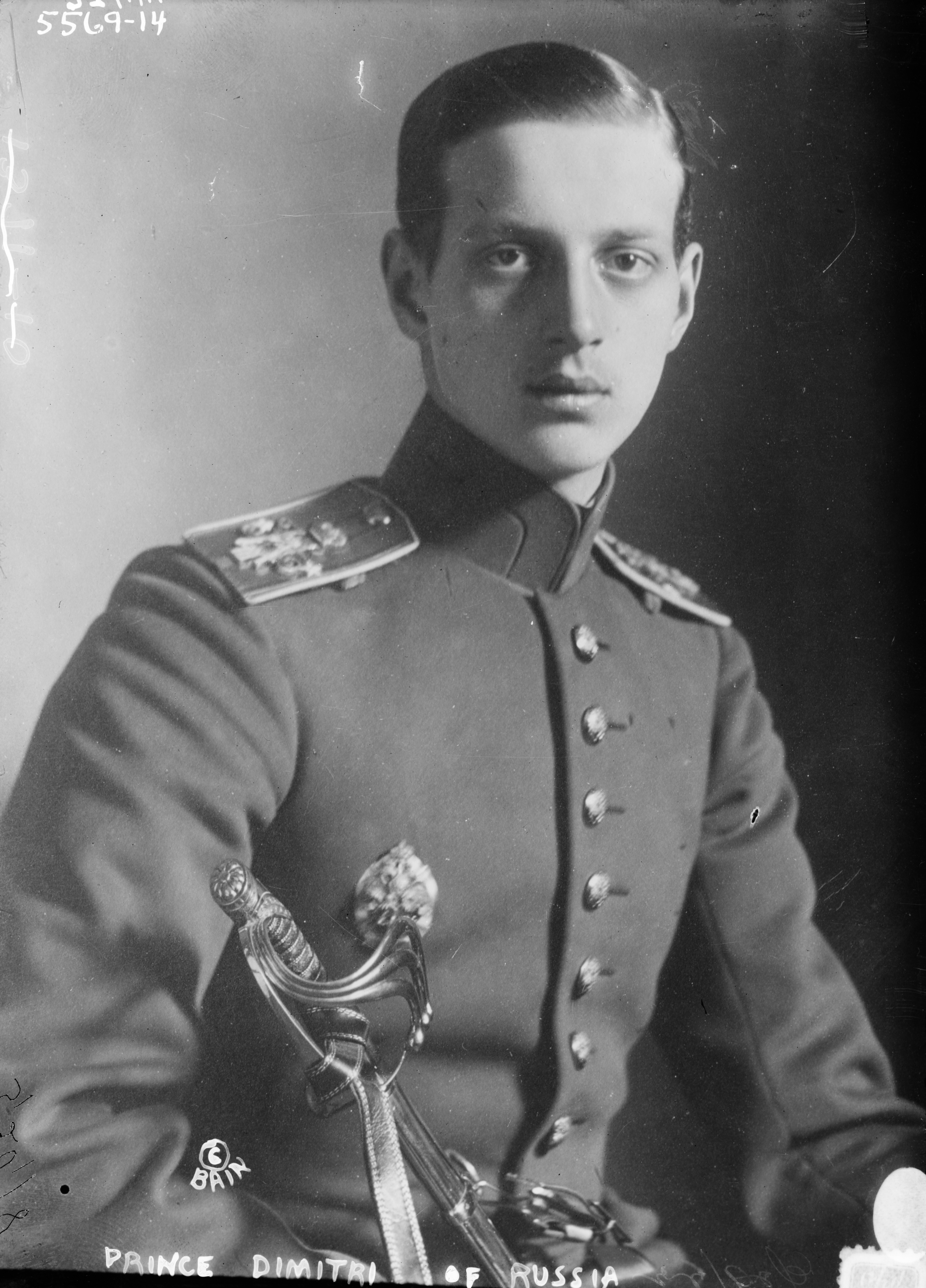 Prince Dimitri of Russia